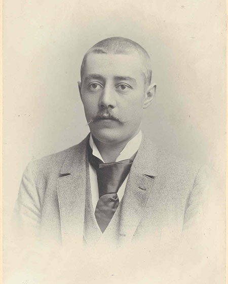 A photograph of the Finnish confectionery manufacturer and sport shooter Karl Fazer (1866 - 1932).